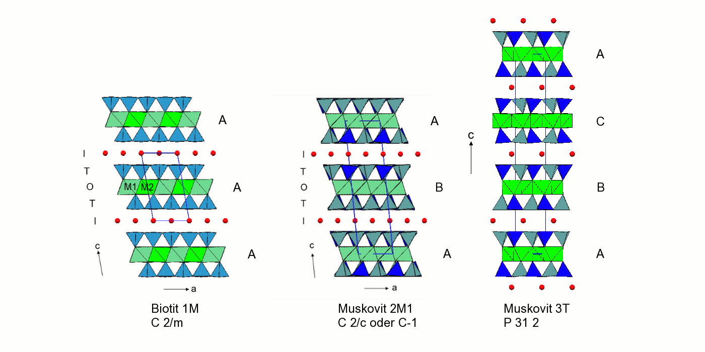 Sandwich of SiO and MO-sheets and stacking of these structural units in the various mica polytypes viewed along the crytallographic b-axis.